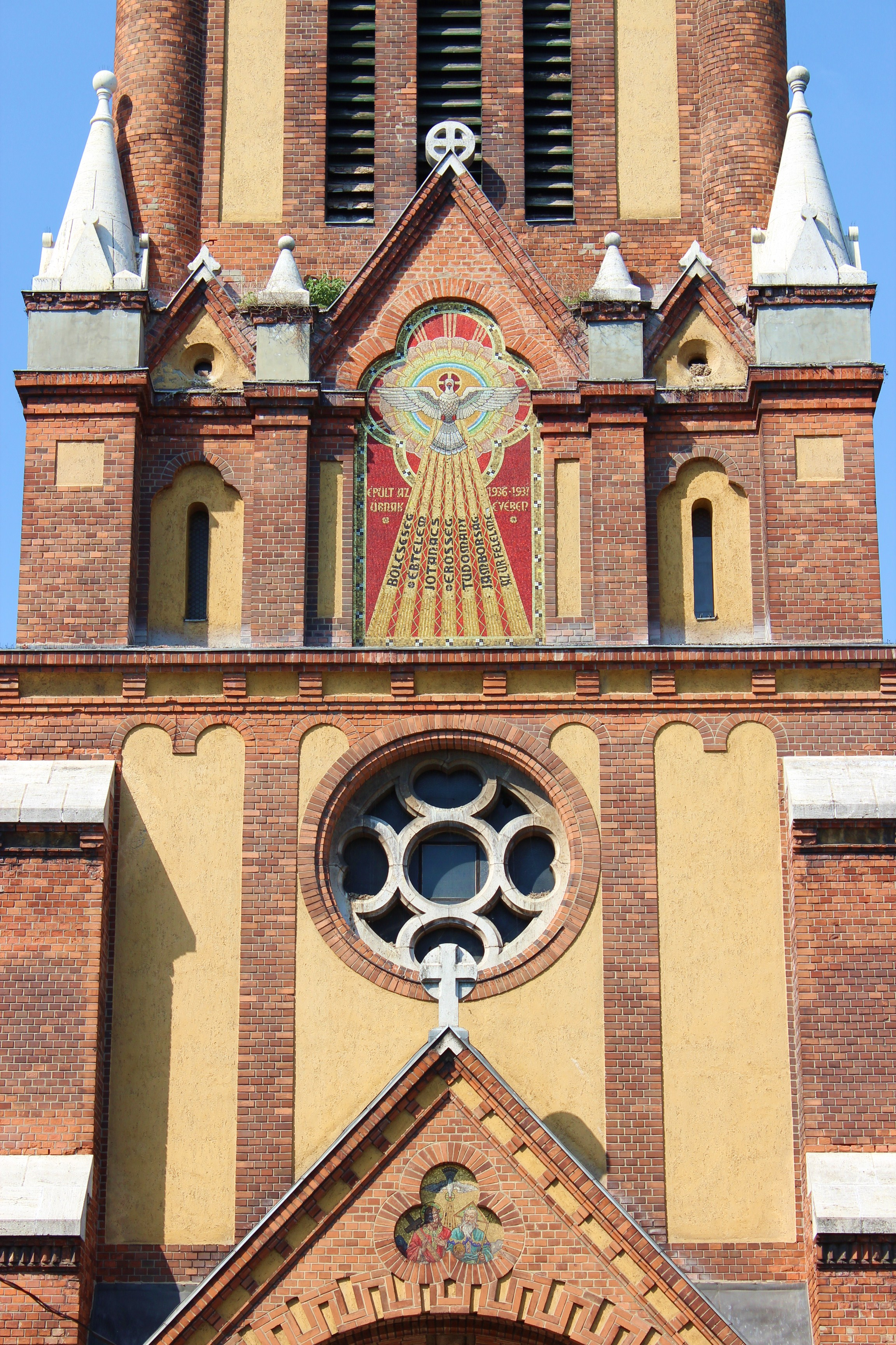 Holy Spirit Church in Kassai square, Budapest